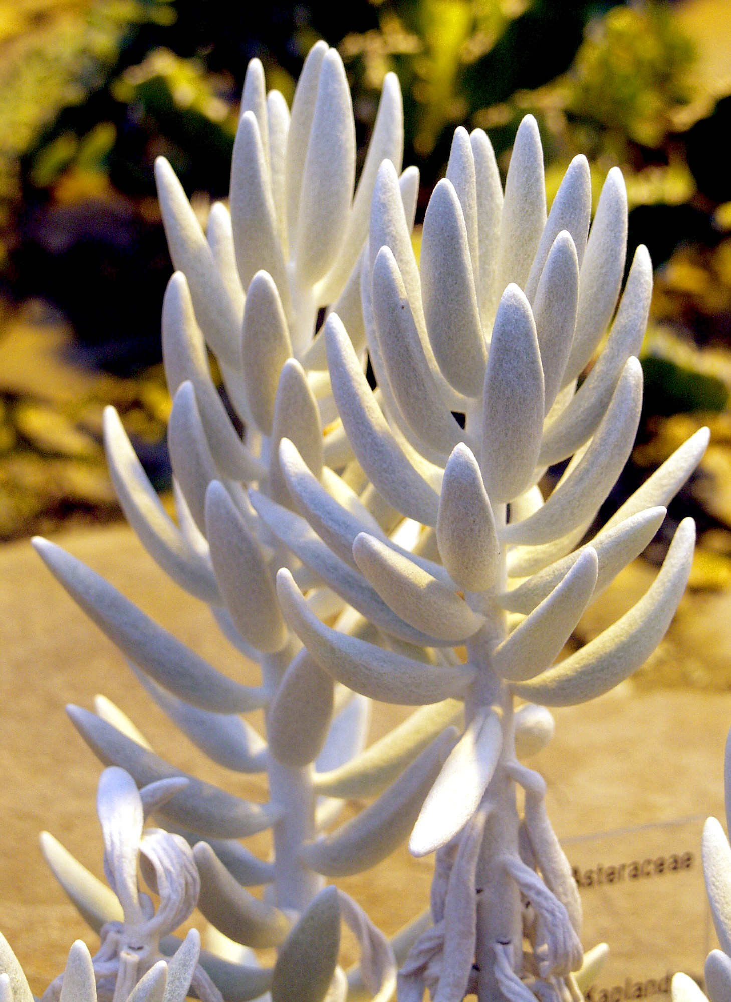 Senecio haworthii at Botanischer Garten Bonn